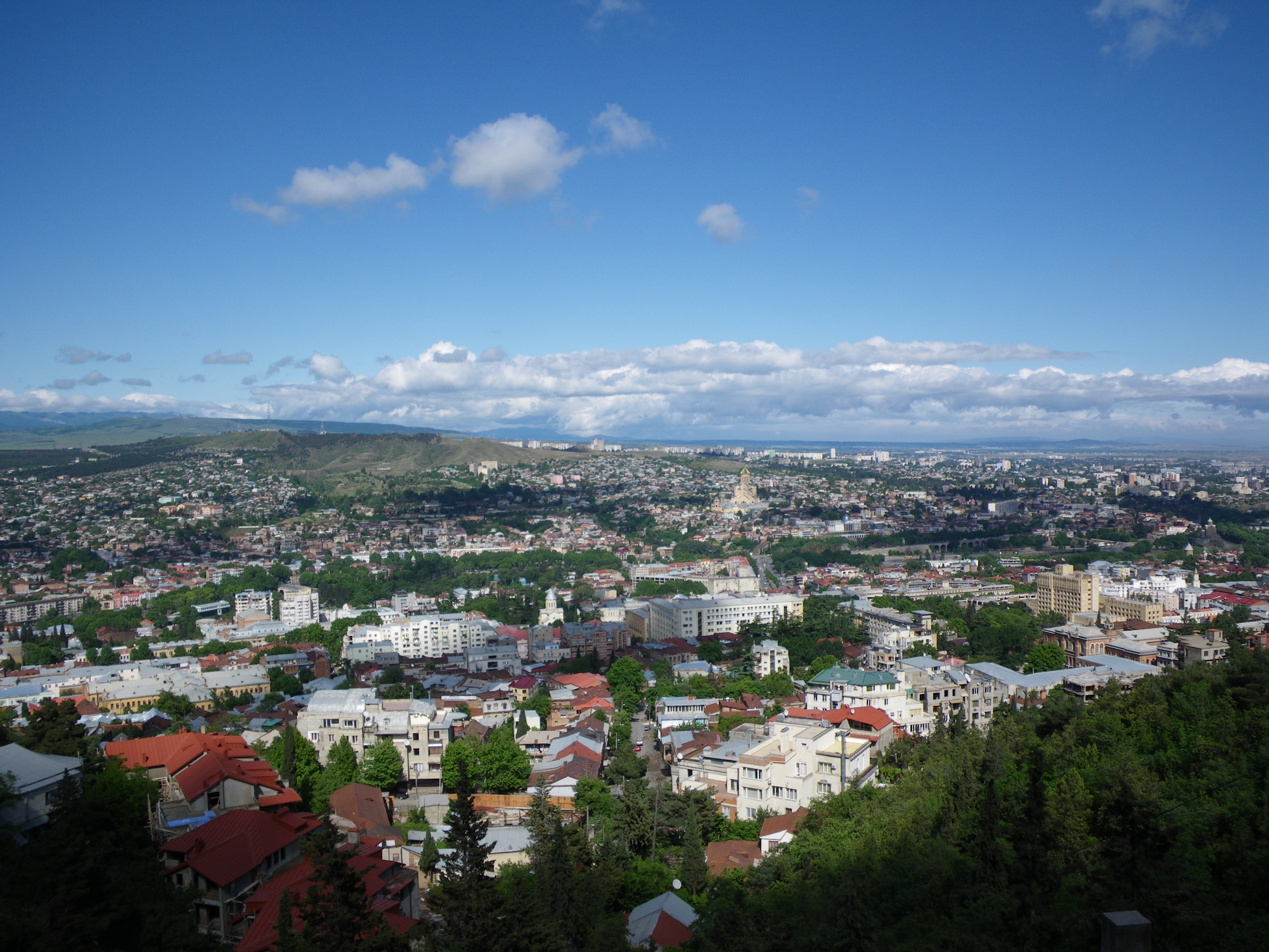 Panoramic view of donwtown Tbilisi